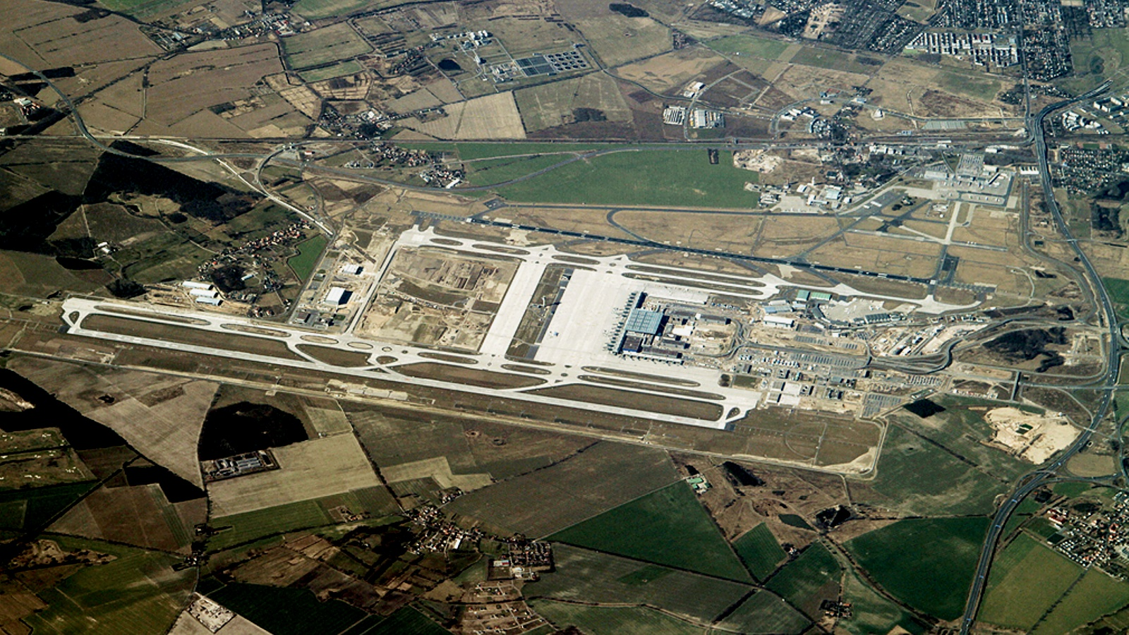 Berlin Brandenburg Airport - March 2012